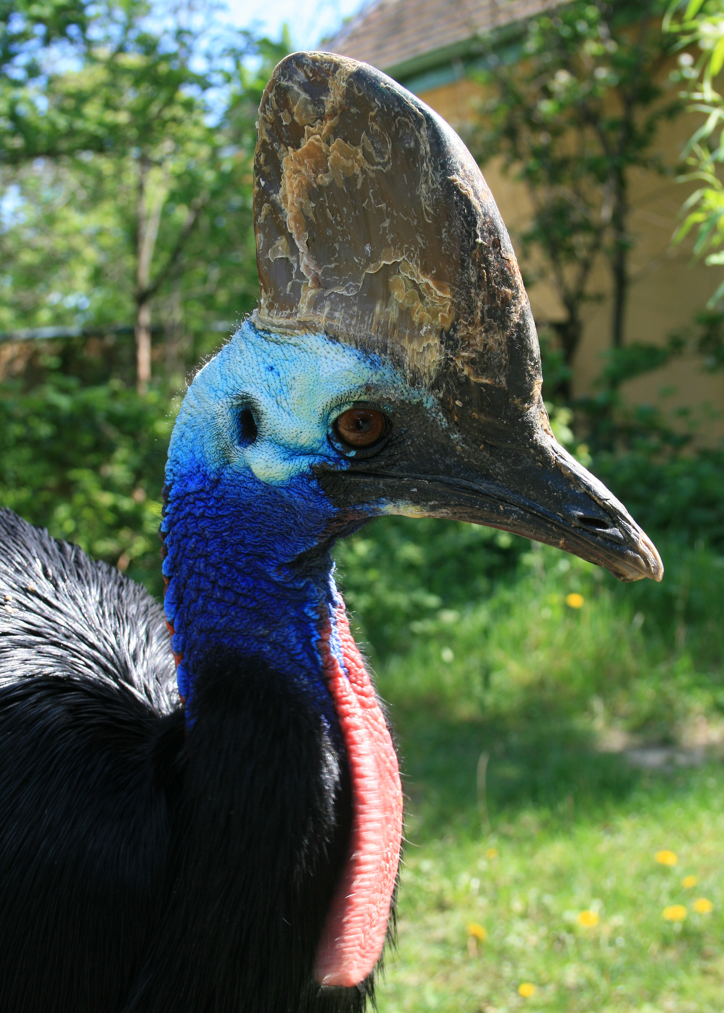 Southern Cassowary at the Tiergarten Schönbrunn in Vienna